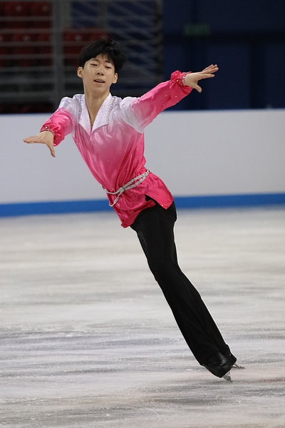 Photos – Junior World Championships 2018 – Men (Sihyeong LEE KOR – 11th Place)